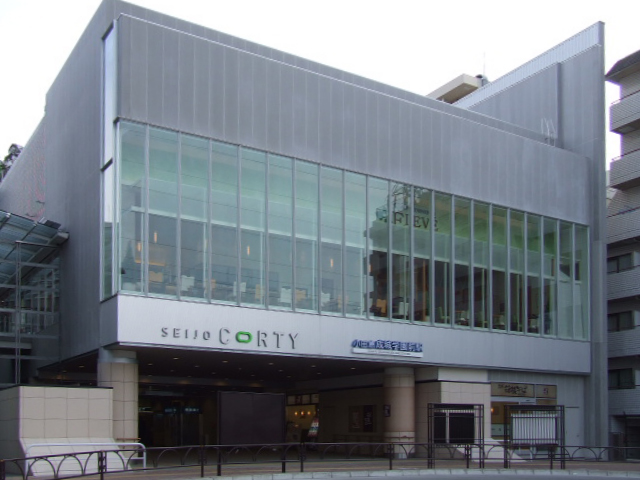 West Building of Seijōgakuen-mae-Station,OER-ODAWARA-LINE,Odakyu Electric Railwey,Japan